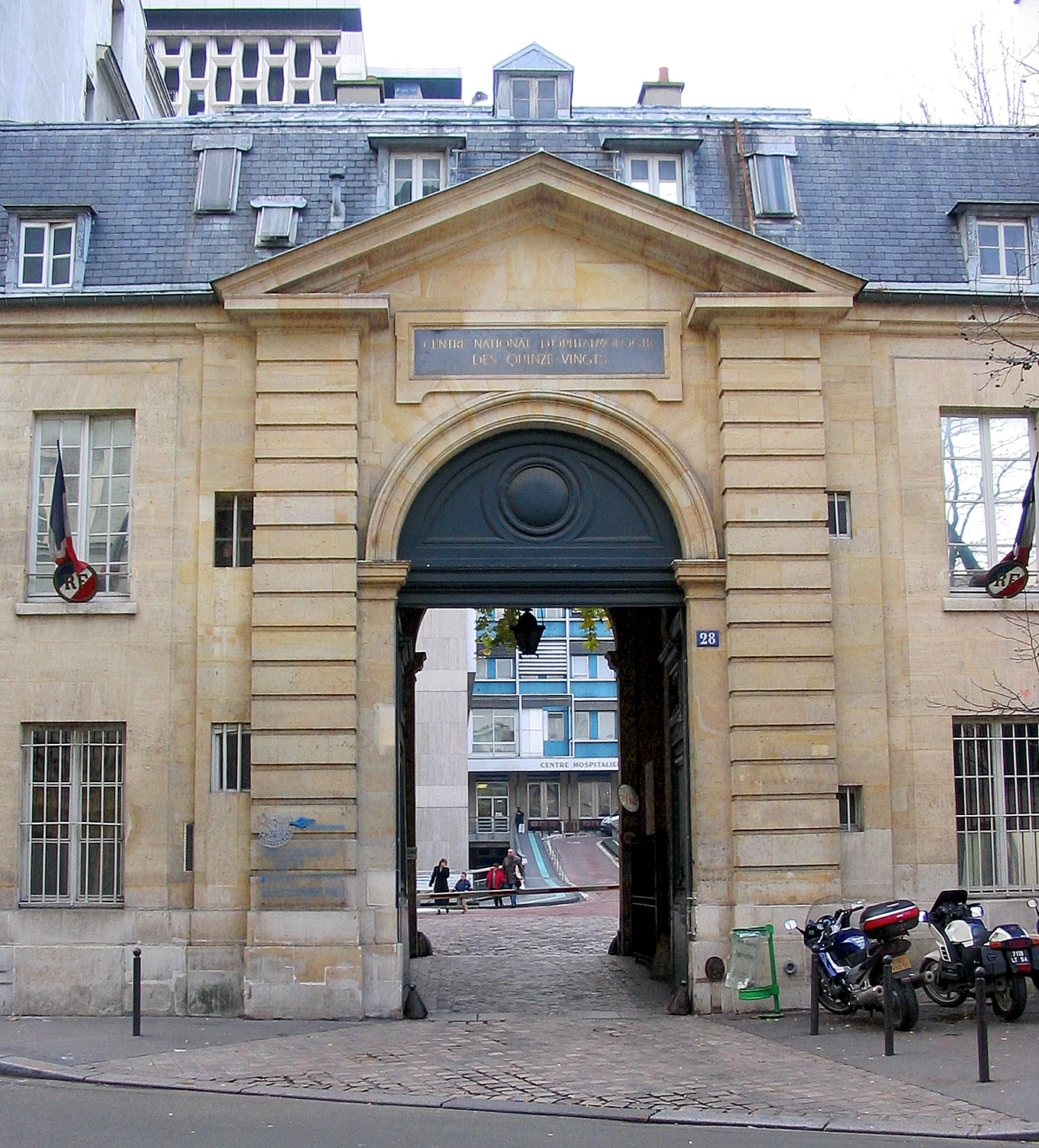 Quinze-Vingt hospital - Paris